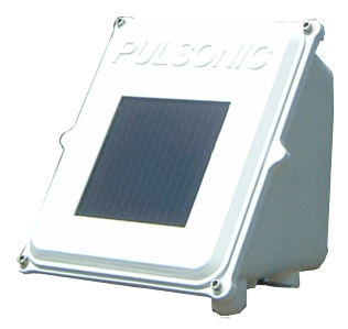 Enclore for data-logger of automatic weather station